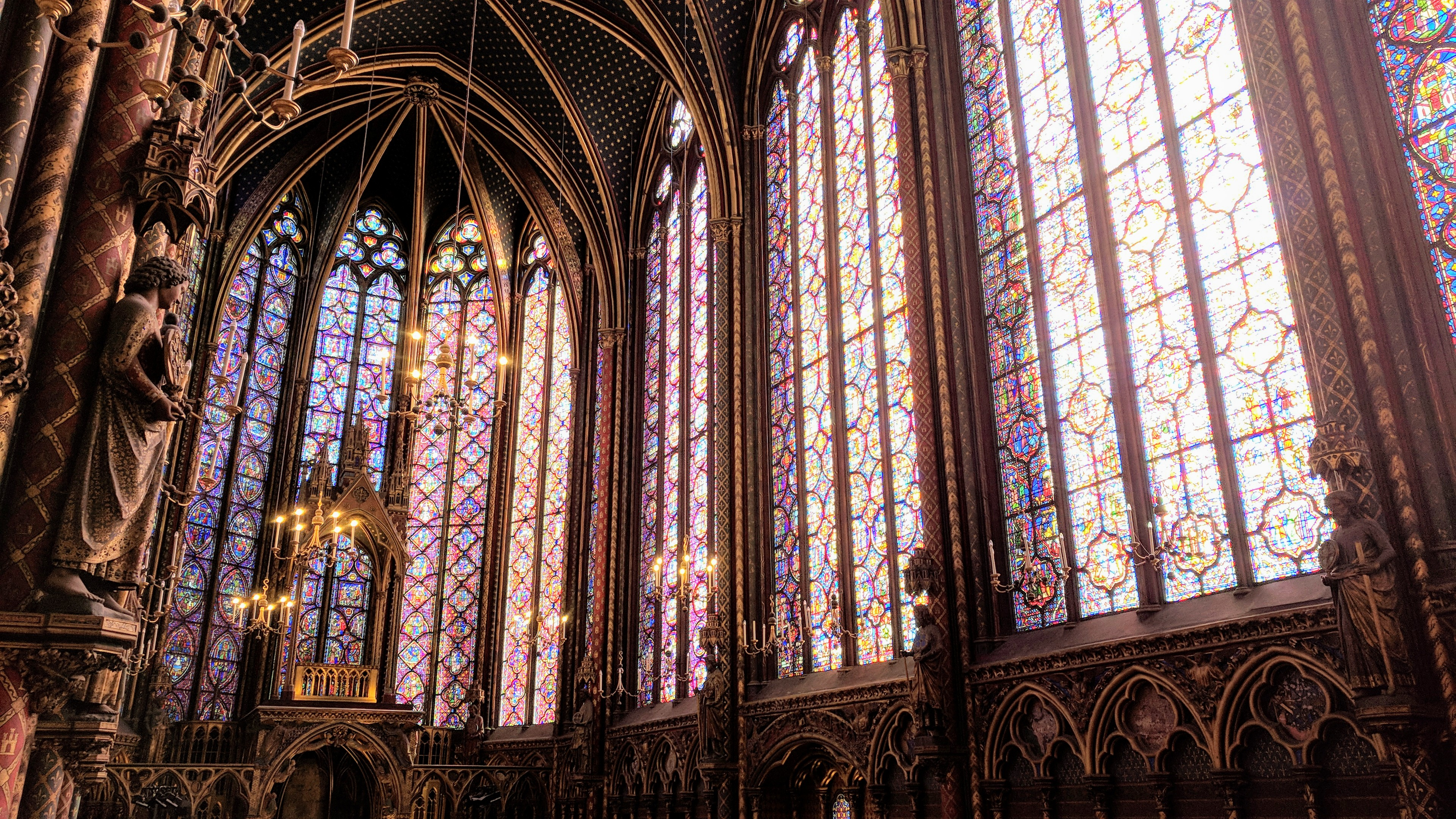 Stained glass interior of the Sainte Chapelle in Paris, France.